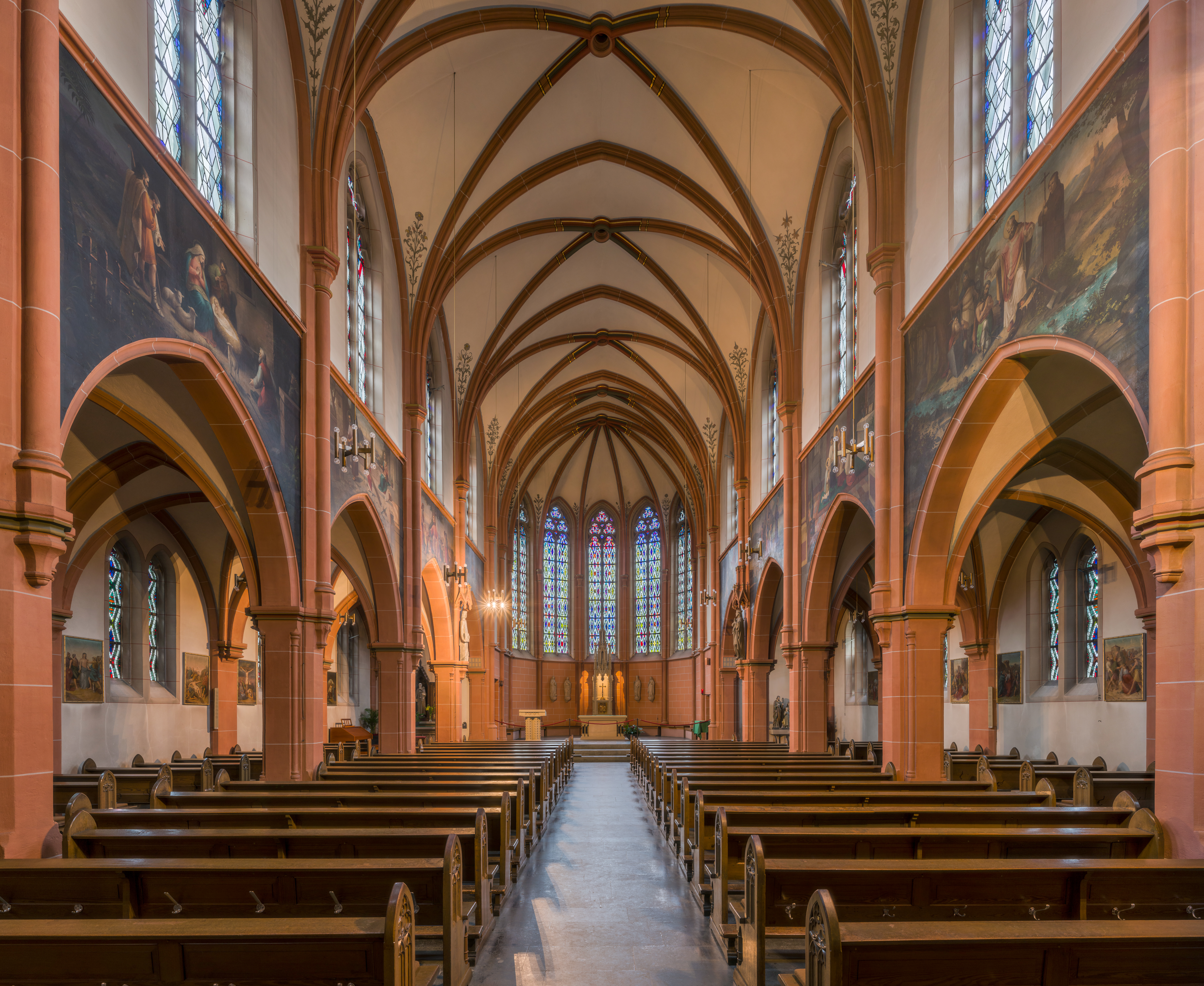 A view of the nave of the Antoniuskirche, Frankfurt-Rödelheim